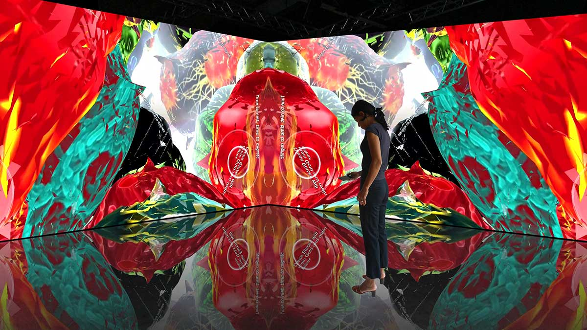 360° VR Mobile Art Apps are new media art projects for interactive art installations. Developed and designed for smartphones and tablets. In museums, galleries and media art festivals the Mobile App Display can be projected on one or more walls in the exhibition space.